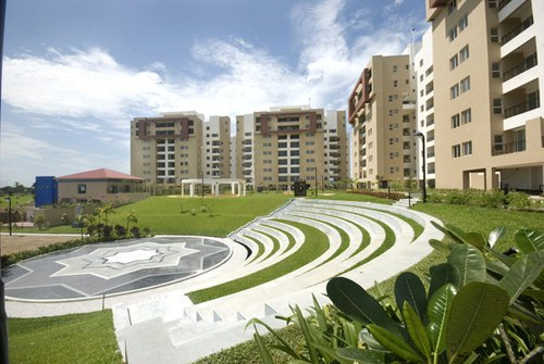 it's called uttarayon